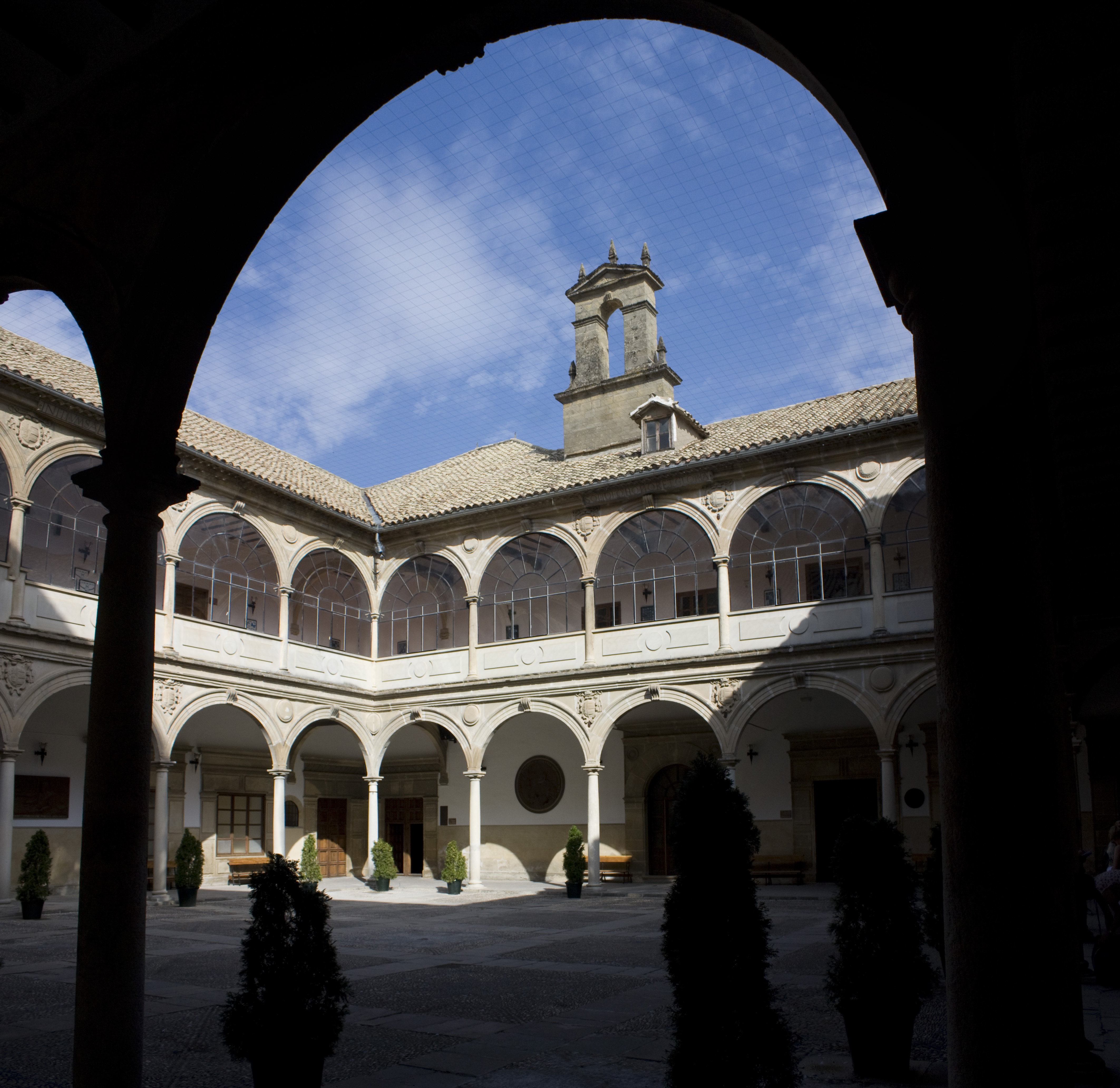 Courtyard of the old university, founded in 1538 in place of the Hermitage St. Léon.